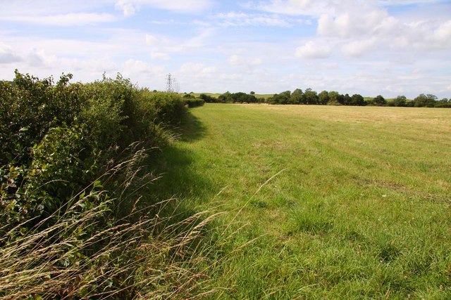 Hedgerow at Chilswell